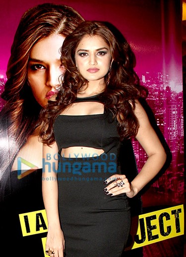 Tara Alisha Berry at the Press conference of 'Love Games'.